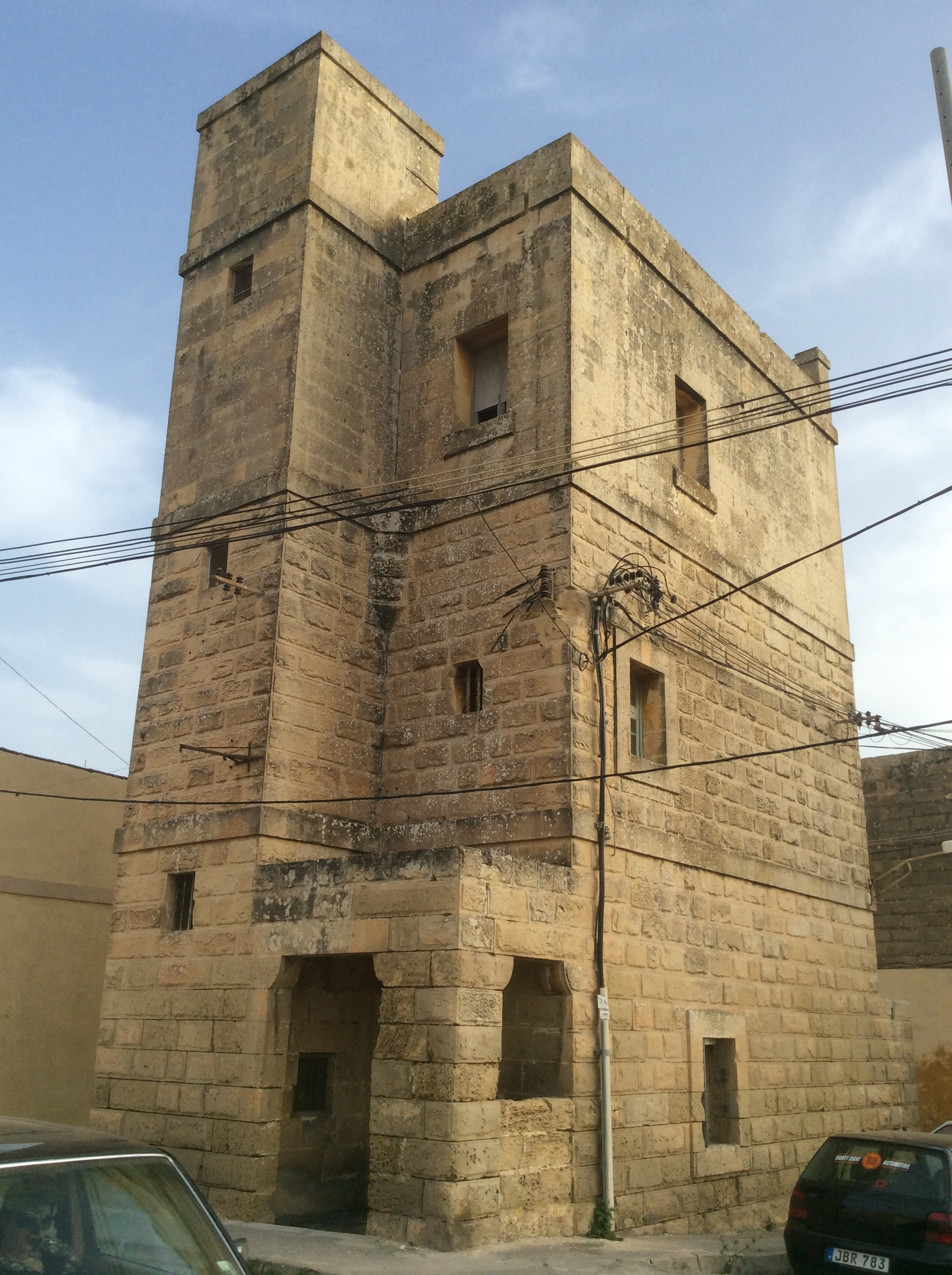 Ghaxaq Semaphor Tower